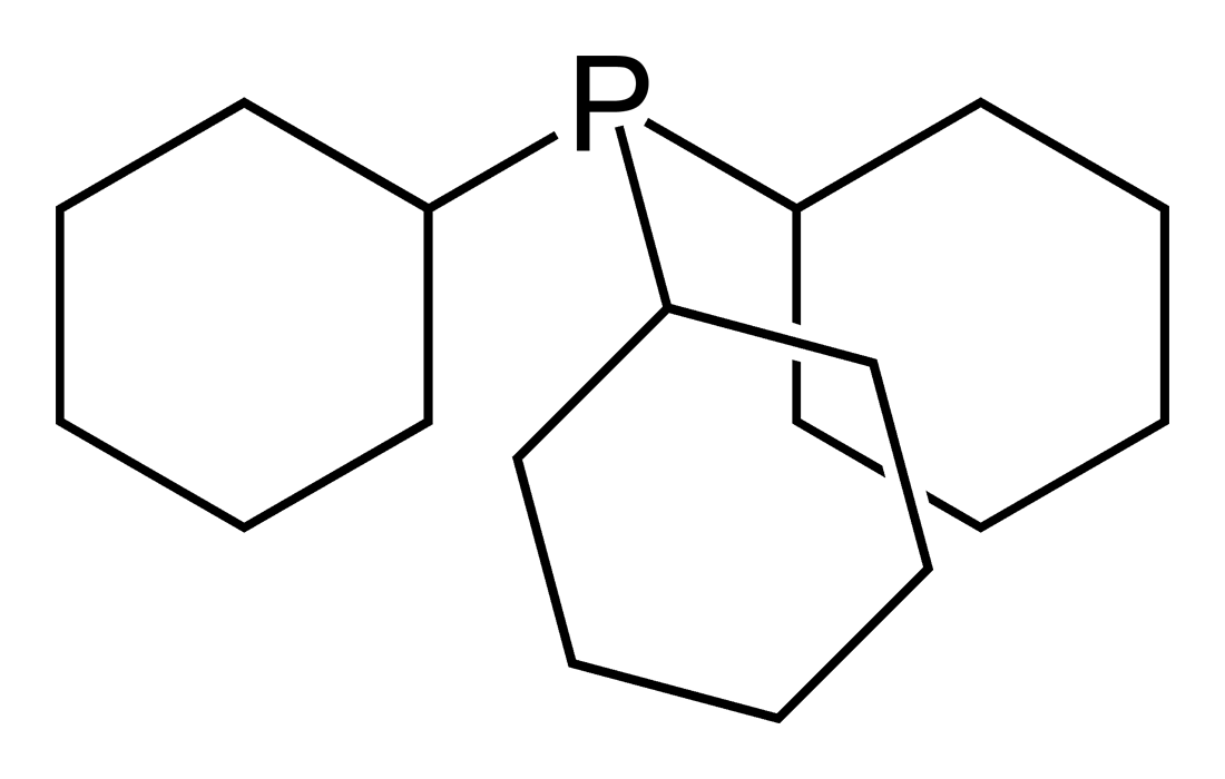 Skeletal formula of tricyclohexylphosphine